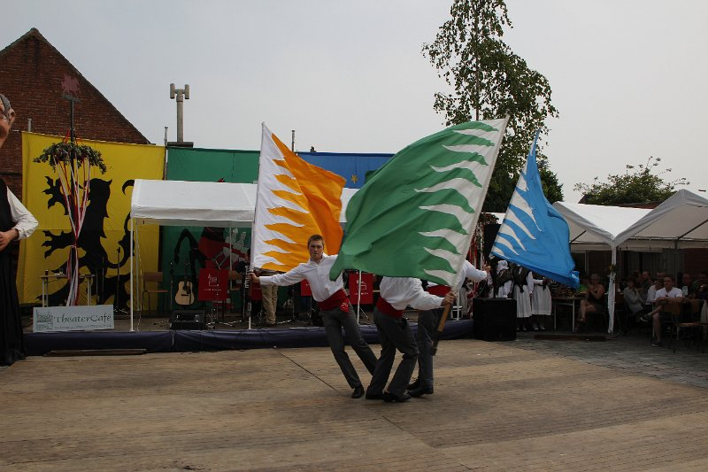 Vendelzwaaien